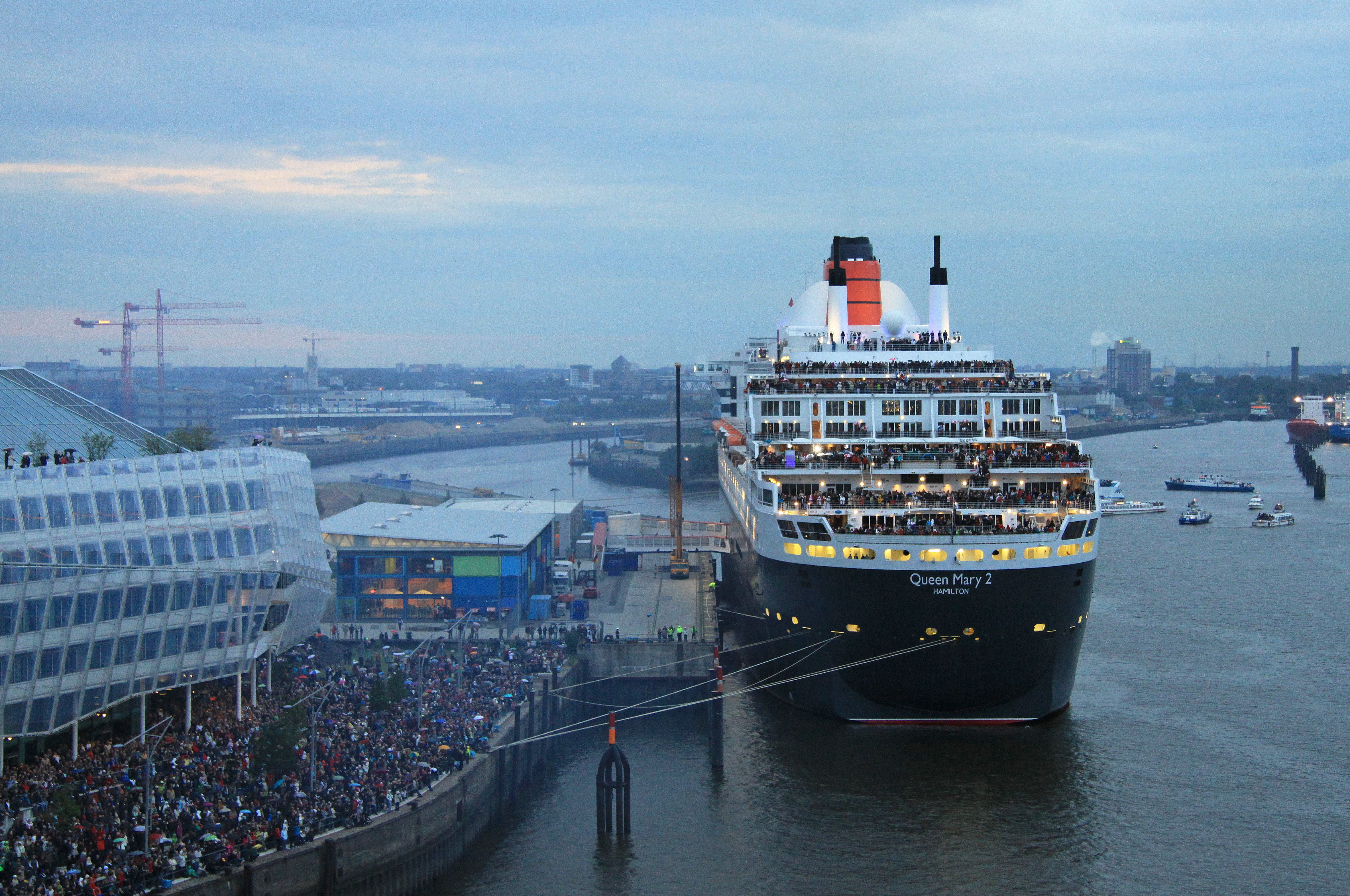 RMS Queen Mary 2 in Hamburg at the meeting of the Queens at July 15th, 2012